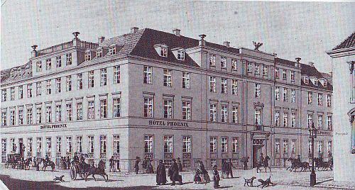 Lithography of Hotel Phønix in Copenhagen, Denmark